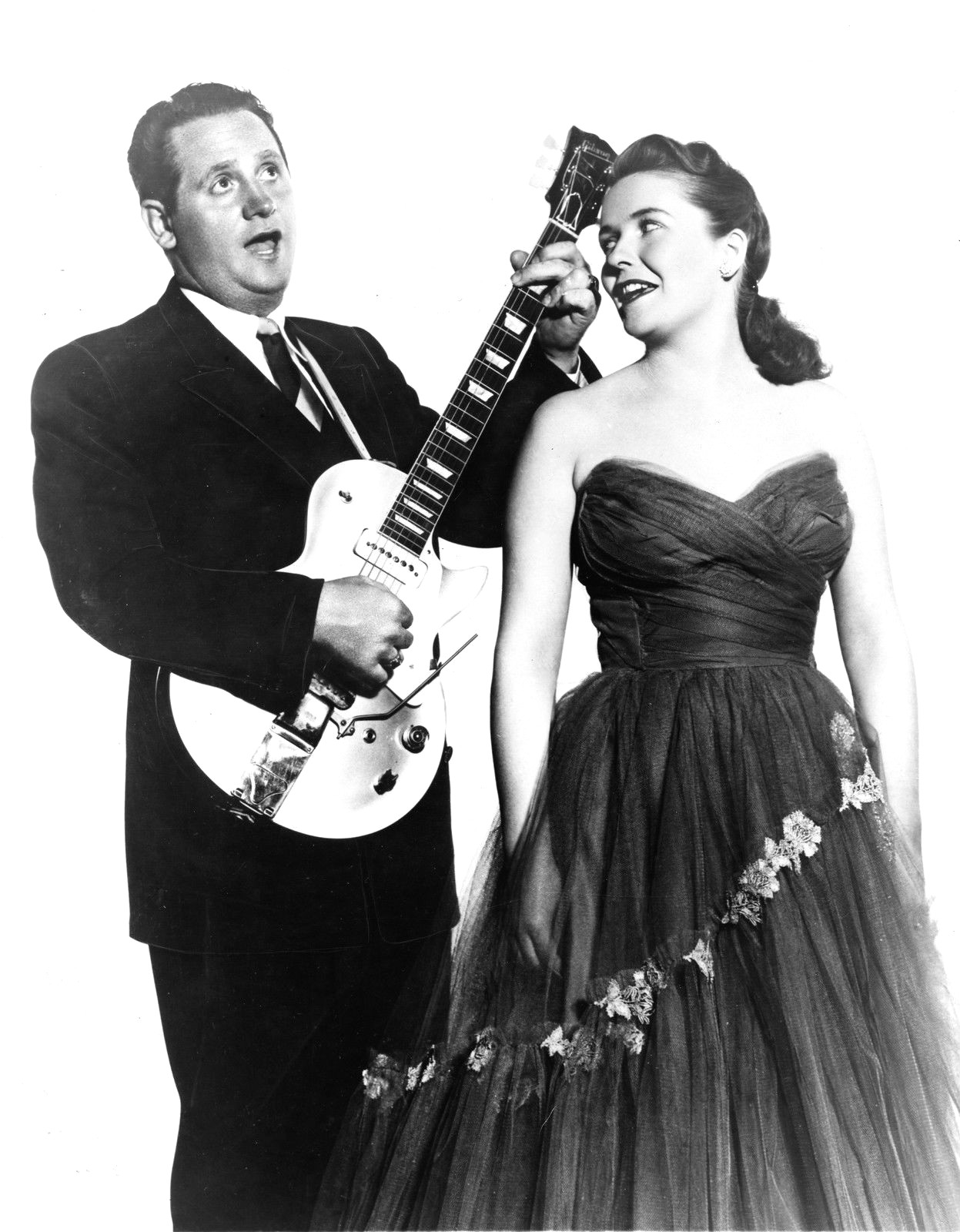 Photo of Les Paul and Mary Ford from a January 1954 TV Guide; the photo is in the upper right of the page.